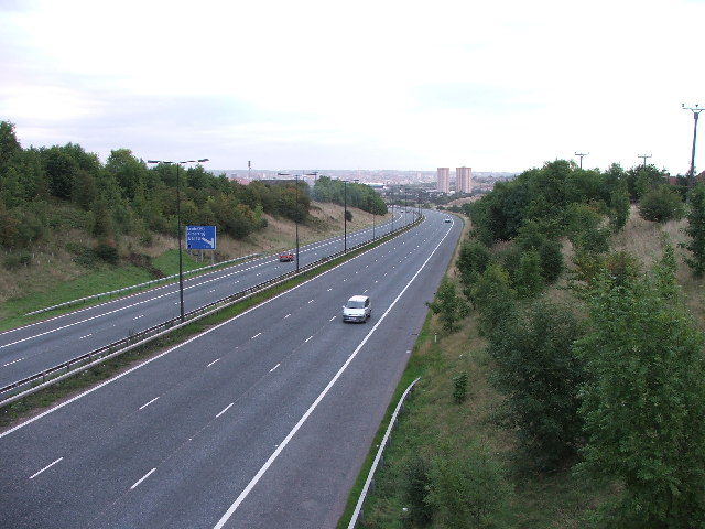 M621 motorway. Looking NE from Rooms Lane. Leeds in the distance.